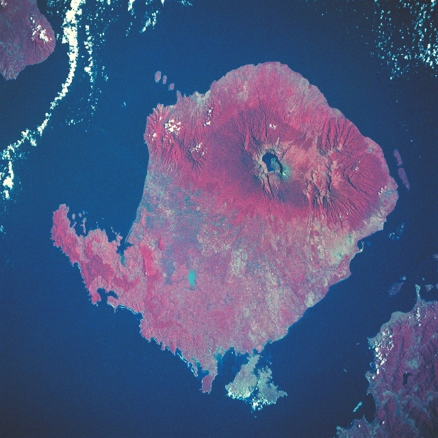 Color infrared view of Rinjani Volcano, Lombok Island, Indonesia